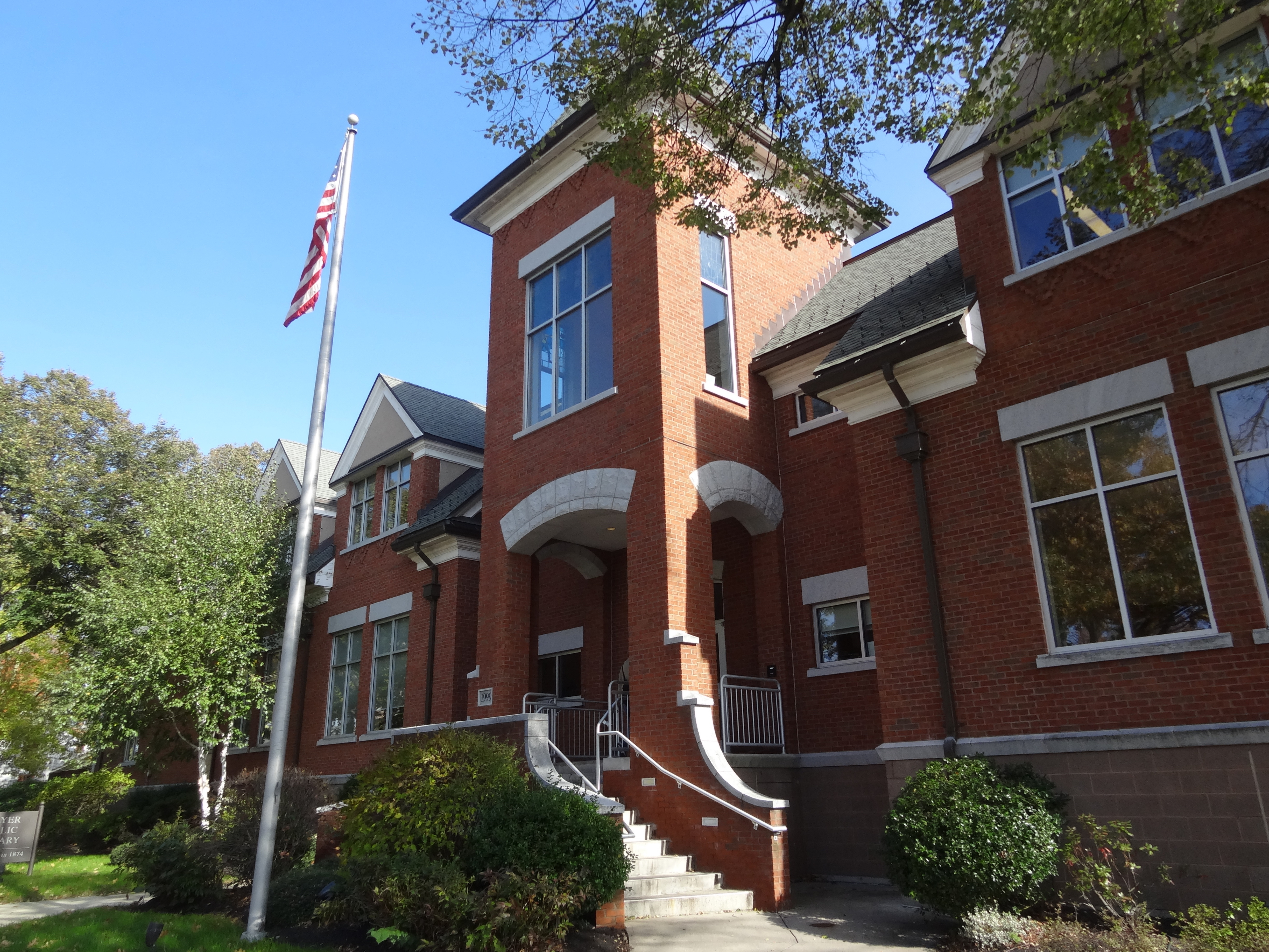 Thayer Public Library 798 Washington Street Braintree, Massachusetts